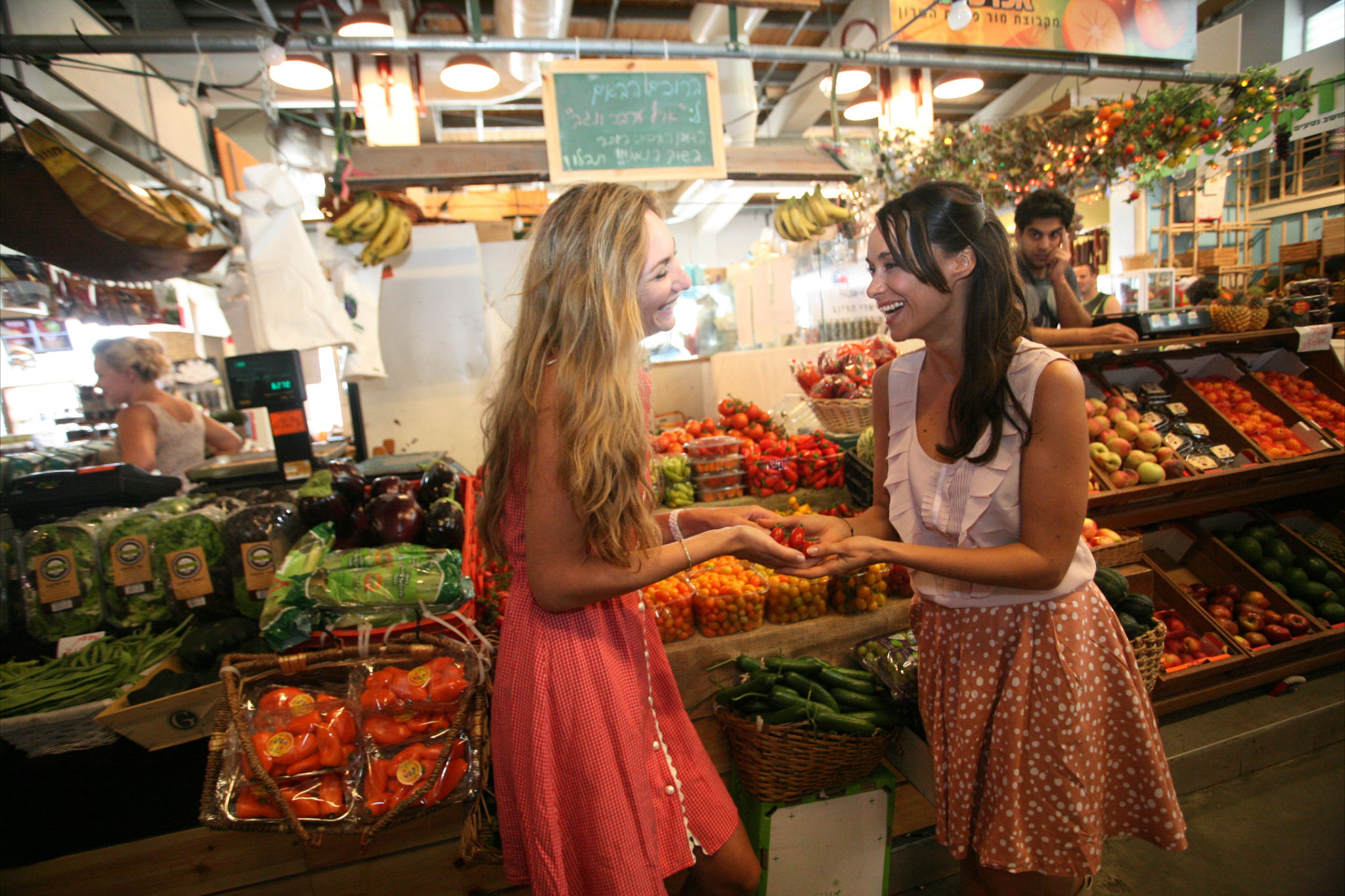 Karine Lima Avec Michal Ansky Picture by Kobi Bacher